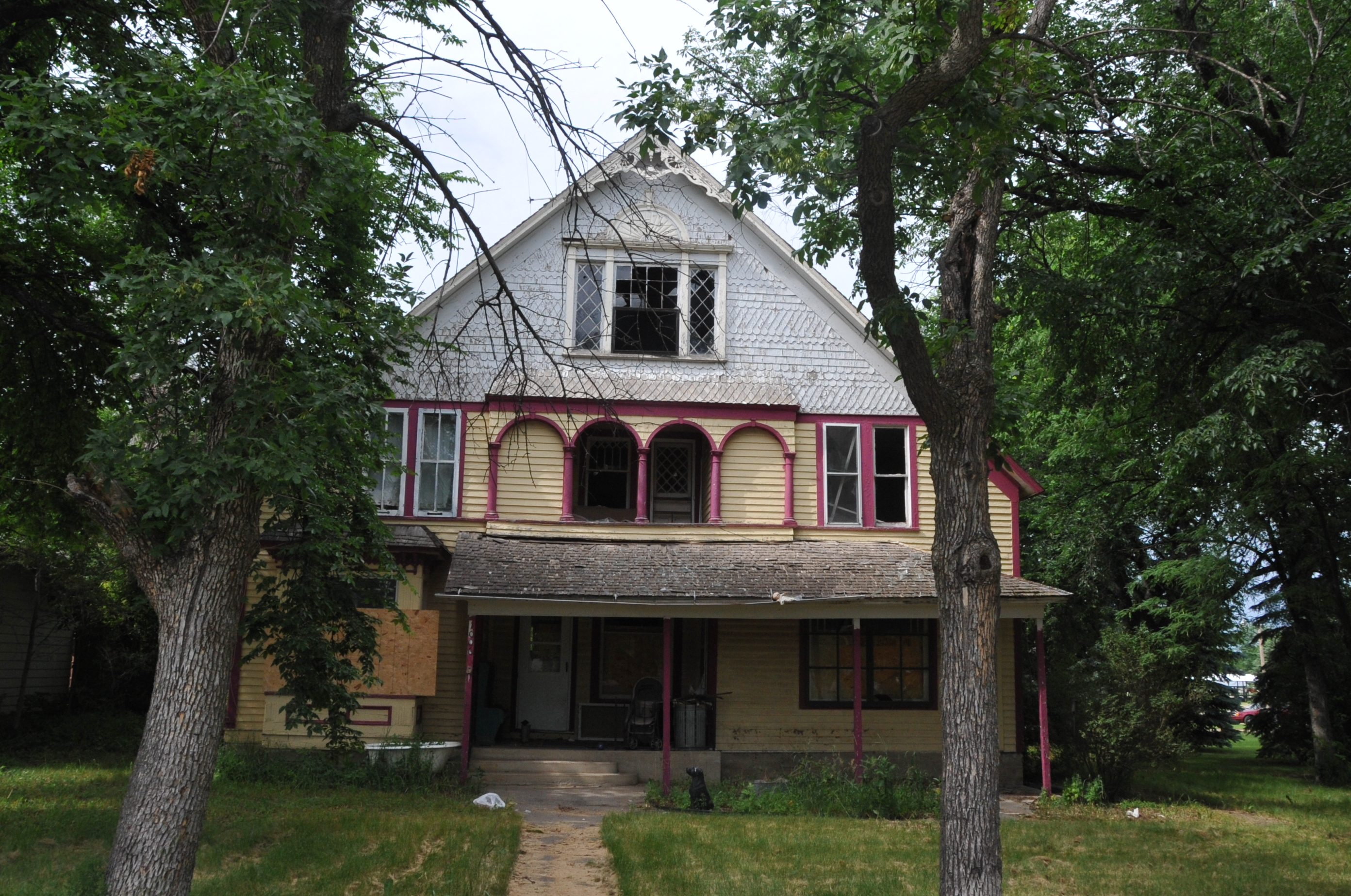 VERNACULAR QUEEN ANNE 1889-1906